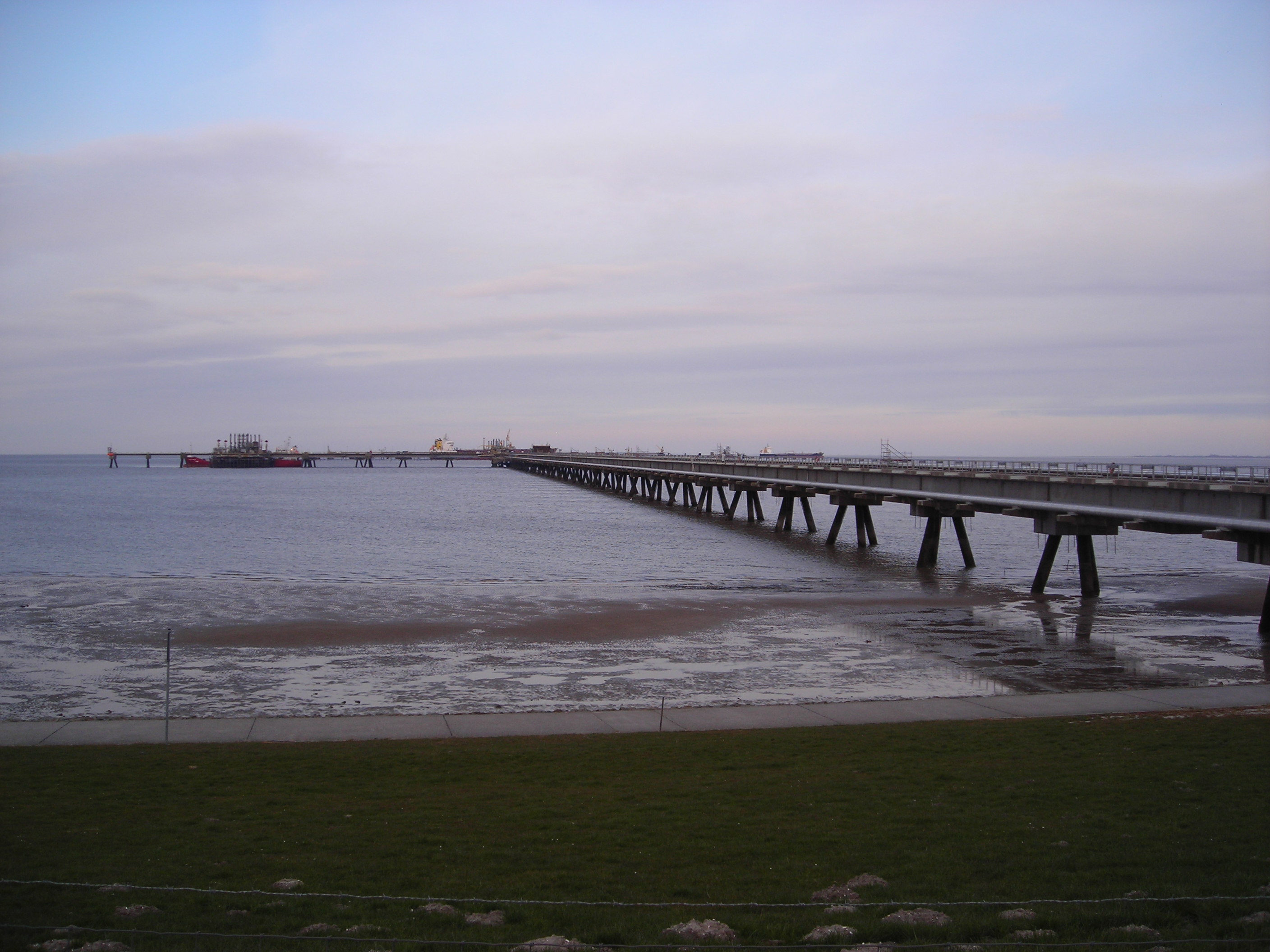 Oil pier at the Wilhelmshaven Oil Refinery, Wilhelmshaven, Germany